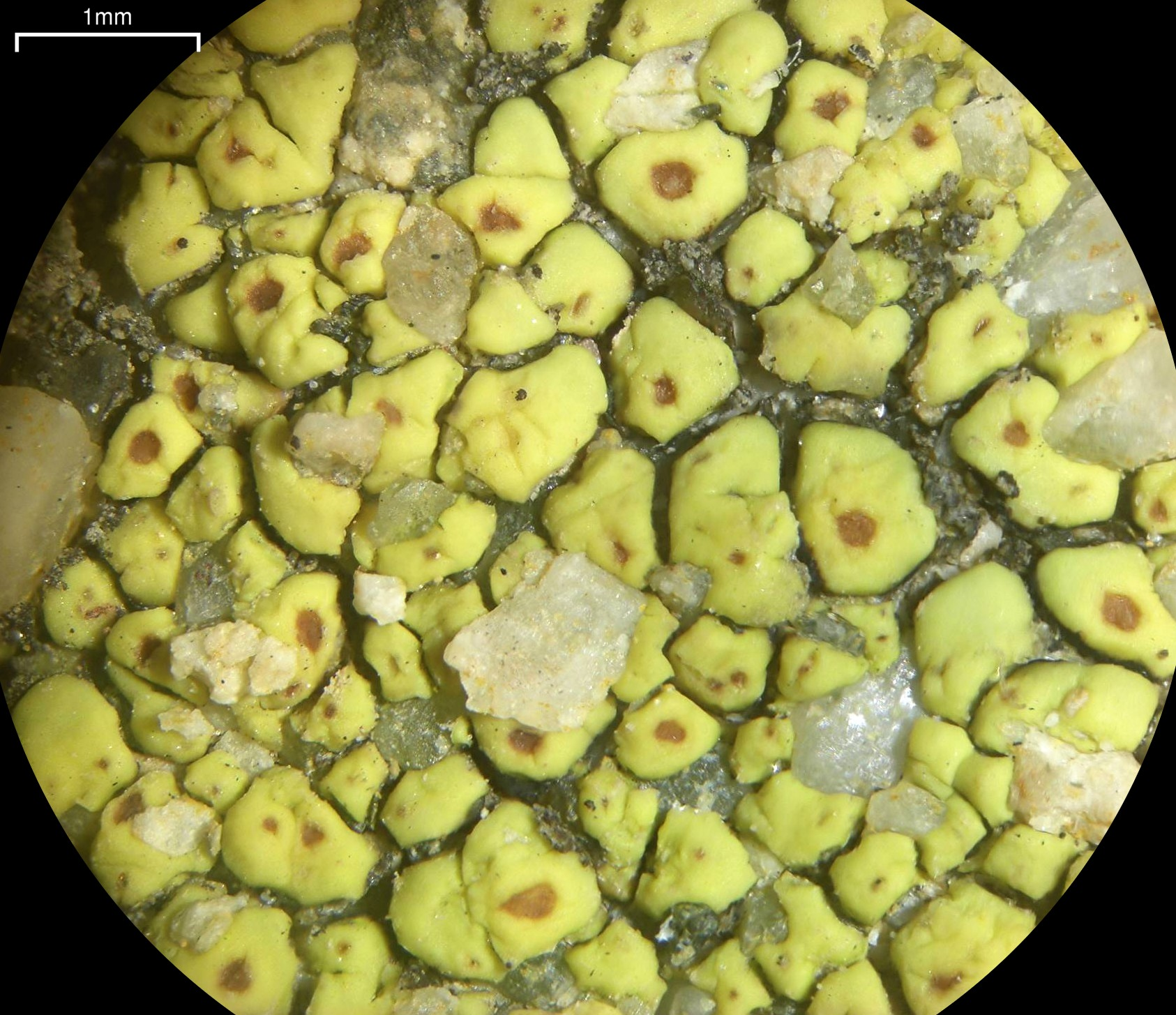 Acarospora socialis H. Magn. Image location: Castro Crest, Malibu Creek State Park, Los Angeles Co., California, USA HABITAT oldgrowth chaparral and conglomerate outcrops at top of high transverse ridge; SUBSTRATE north face of conglomerate cliff; ASPECT shaded; NOTES light yellow scattered small convex smooth areoles, light brown small flush apothecia 1 per areole, cortex K- C- KC- UV+yellow 350nm, medulla K- C- KC- UV+ice? 350nm, epihymenium brown thick POL+, hymenium hyaline POL-, cortex very thick golden-brown at margin POL+, algae irregular and thick POL-, some POL+ crystals under apothecia; SPORES ?. Recognized by sight Fertile thallus, at 30x, stacked. For more information about this, see the observation page at Mushroom Observer.